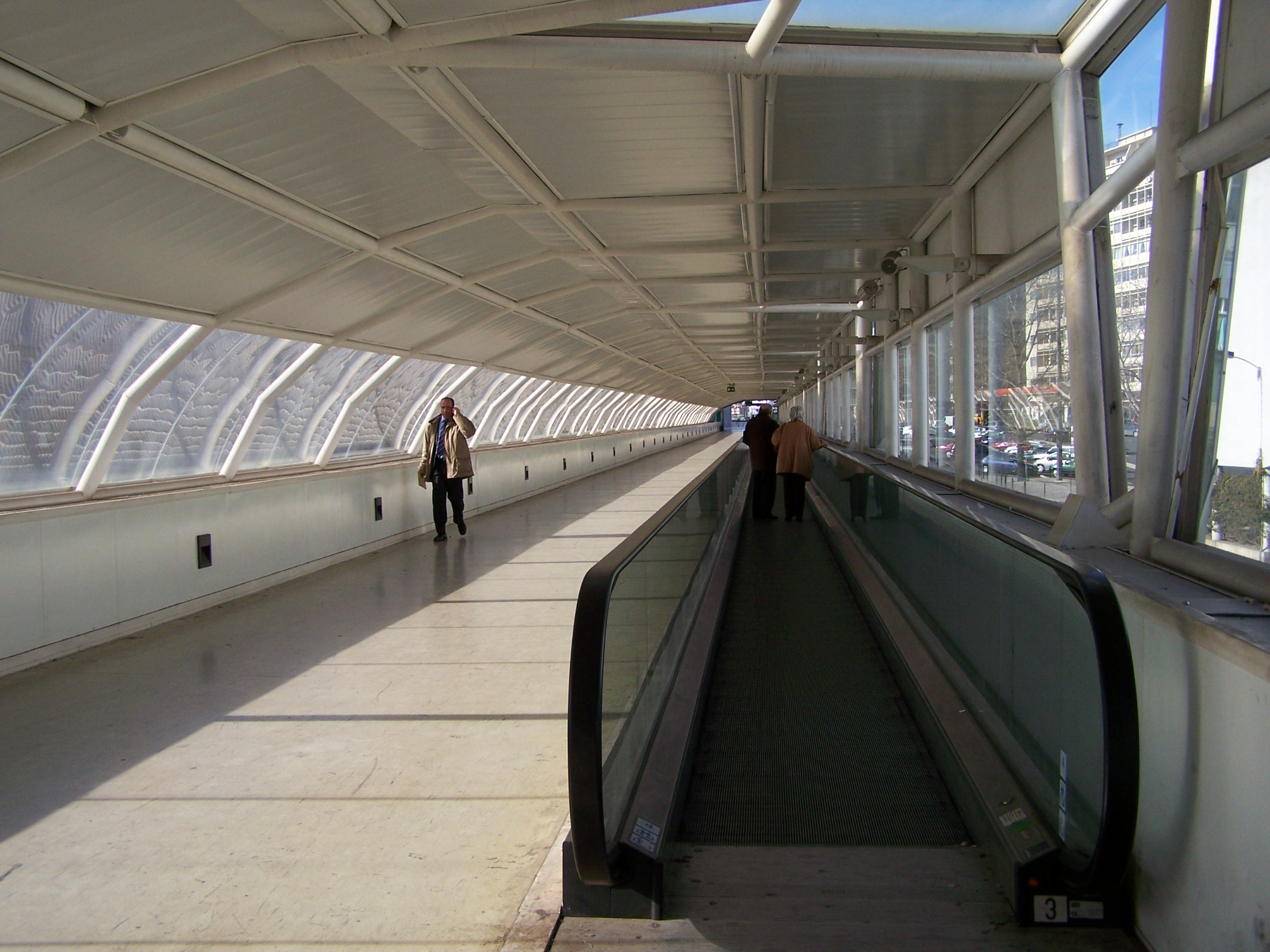 Lisbon's train station Roma-Areeiro, Lisbon, Portugal